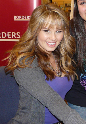 Debby Ryan. 16 Wishes event at Borders.